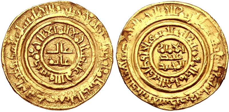 Original caption: ISLAMIC, Fatimids. al-Hafiz li-Din Allah. AH 526-544 / AD 1131-1149. AV Dinar (22mm, 4.29 g, 8h). Third series. al-Iskandariya (Alexandria) mint. Dated AH 544 (AD 1149/50). Nicol 2610; Album 735.3; ICV 850. VF, die rust, edge marks. Rare.